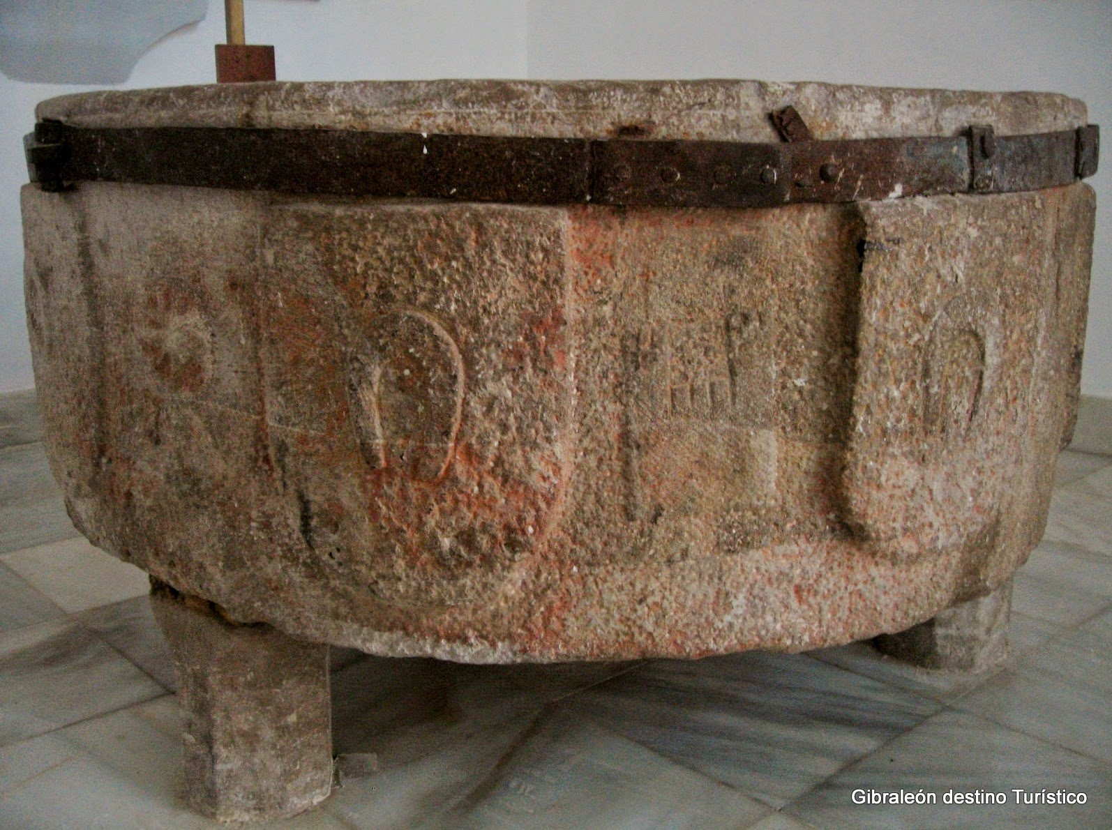 baptismal font of gibraleon